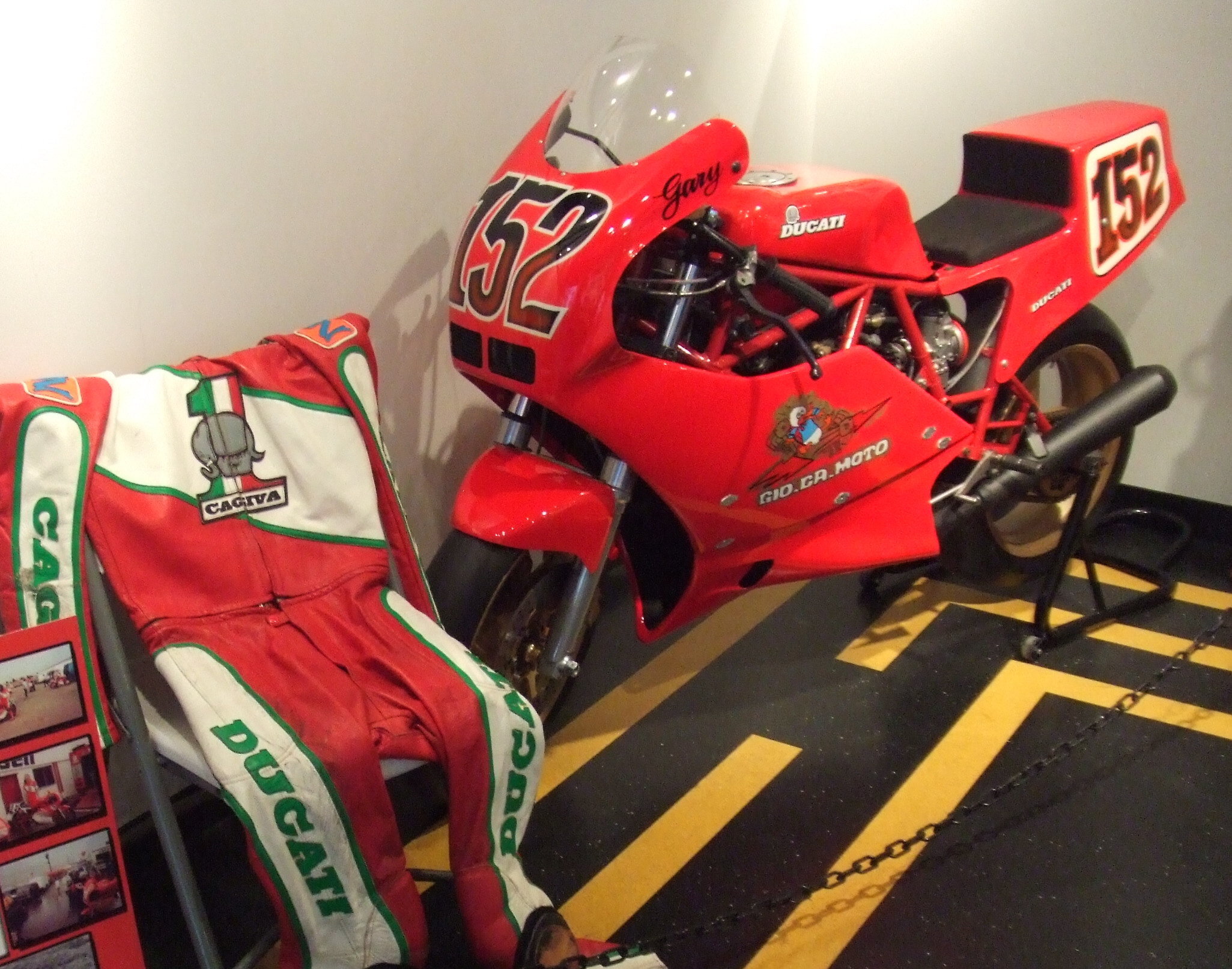 1986 Ducati 750 F1 at the Riverside International Automotive Museum in Riverside, California.